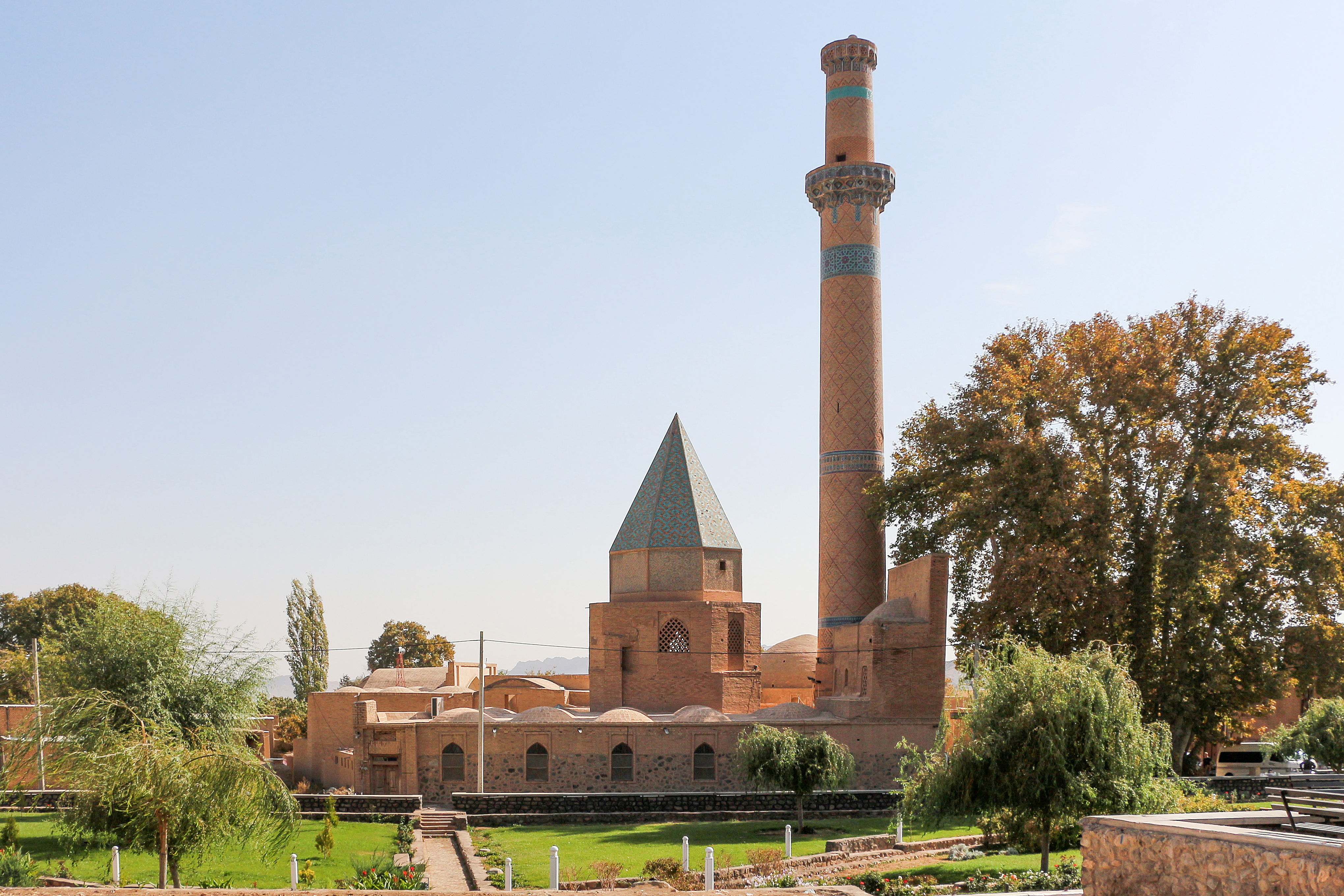 Shrine Complex of Sheikh 'Abd al-Samad, Natanz, Iran